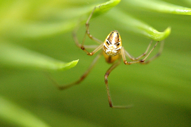 male Phylloneta impressa from Commanster, Belgian High Ardennes .